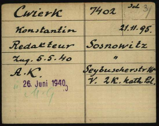 Registry card of Konstanty Ćwierk as a prisoner at Dachau Nazi Concentration Camp